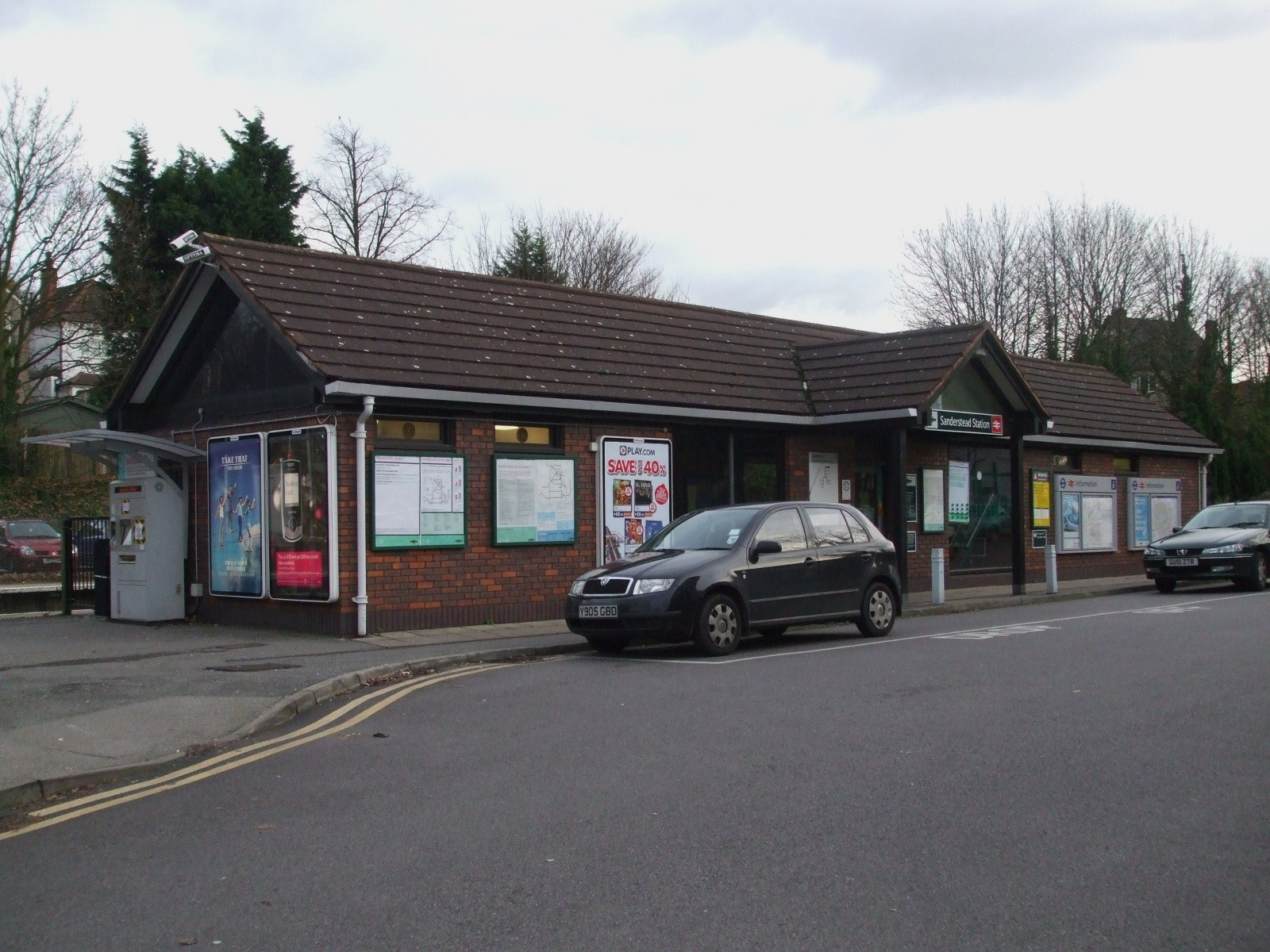 Sanderstead station building